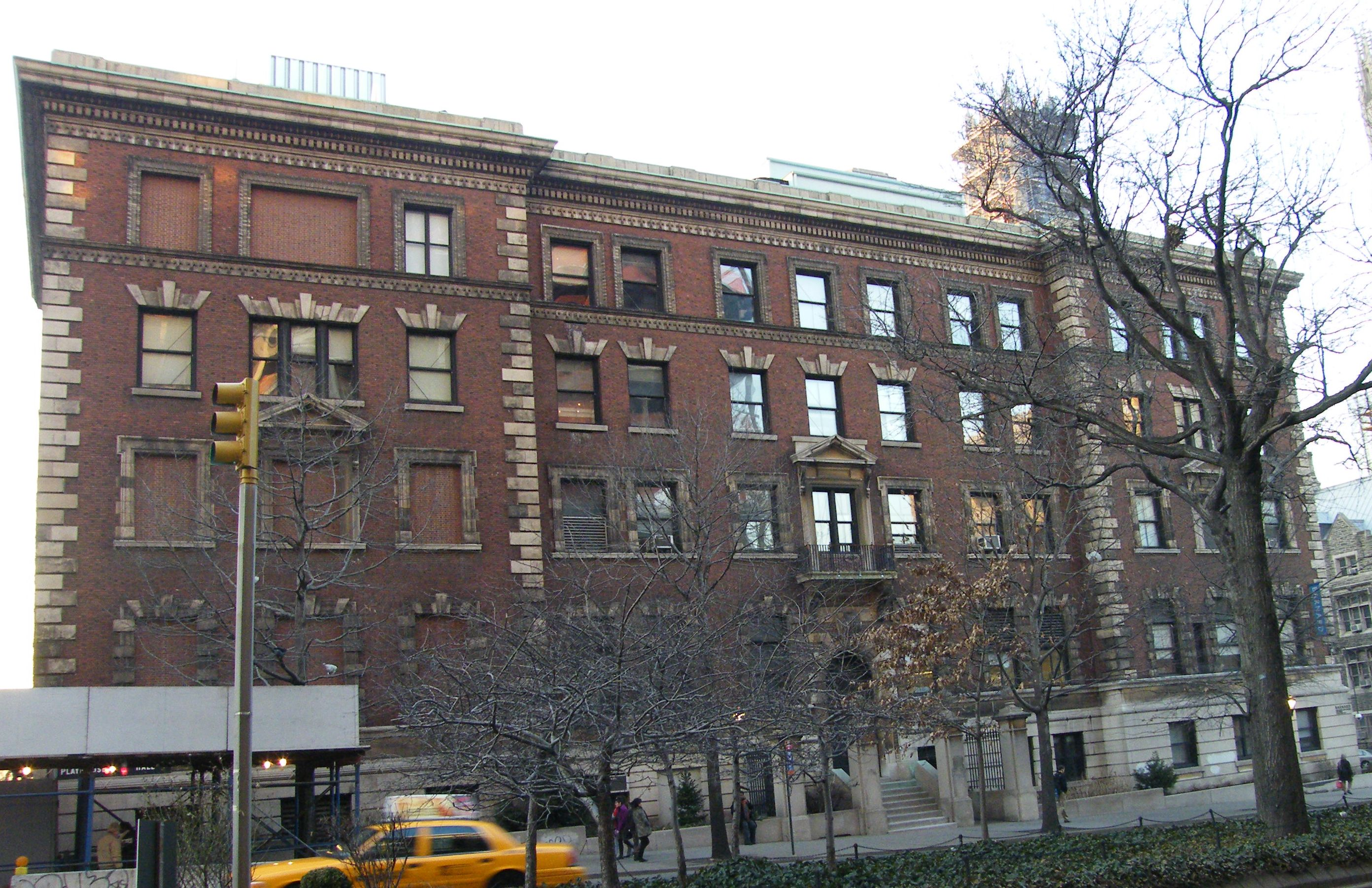 Milbank Hall on National Register of Historic Places In New York City